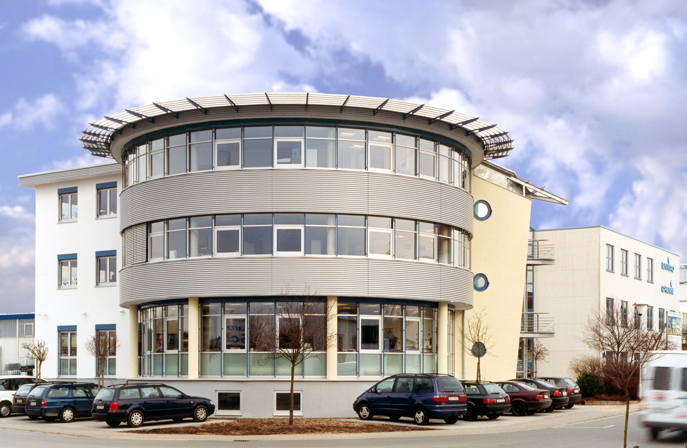 Enviro office in Roßdorf (Darmstadt), Hesse, Germany.